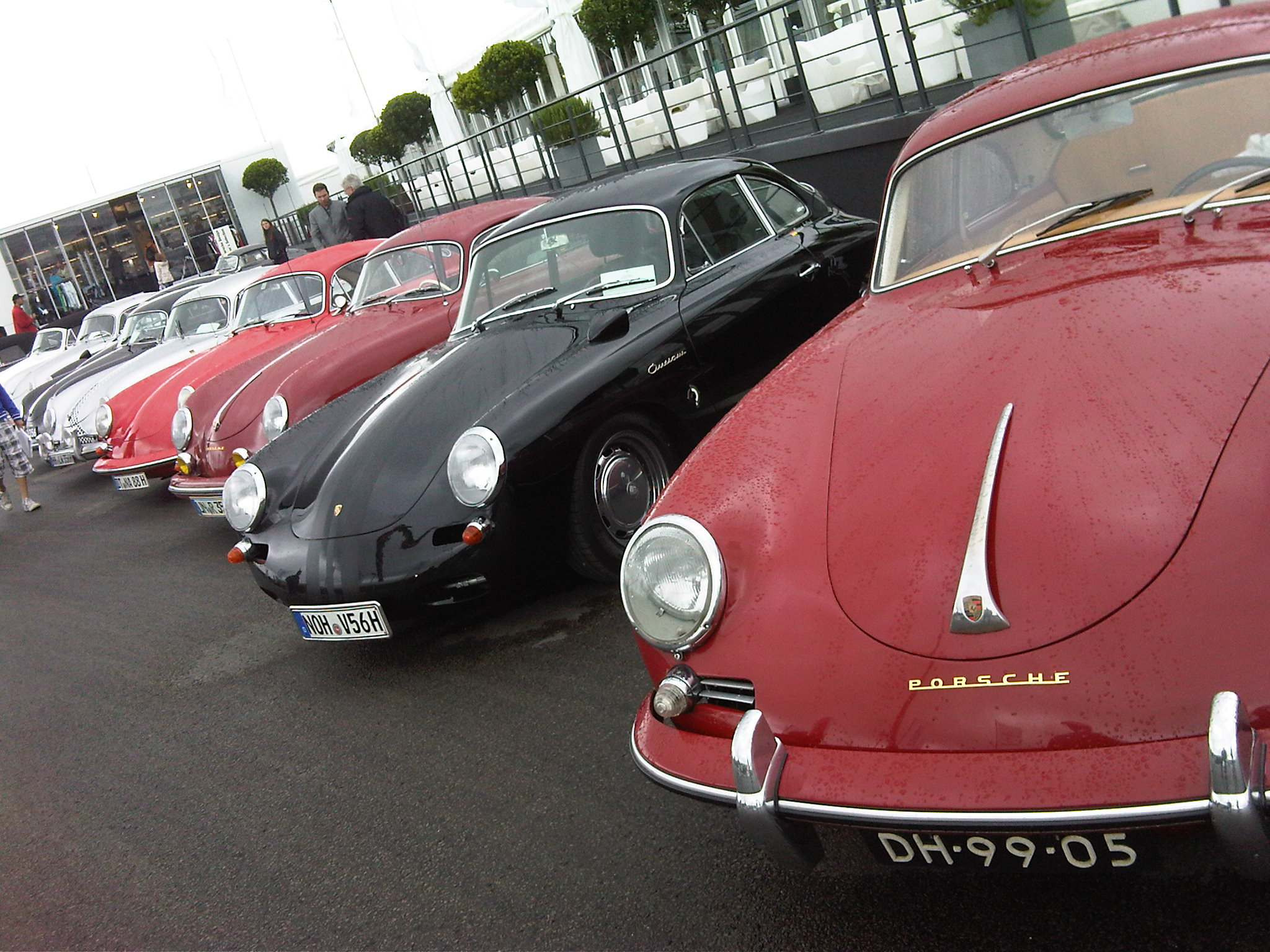 Porsche 356 (39. AvD Oldtimer-Grand-Prix, Nürburgring 12.-14.08.2011)